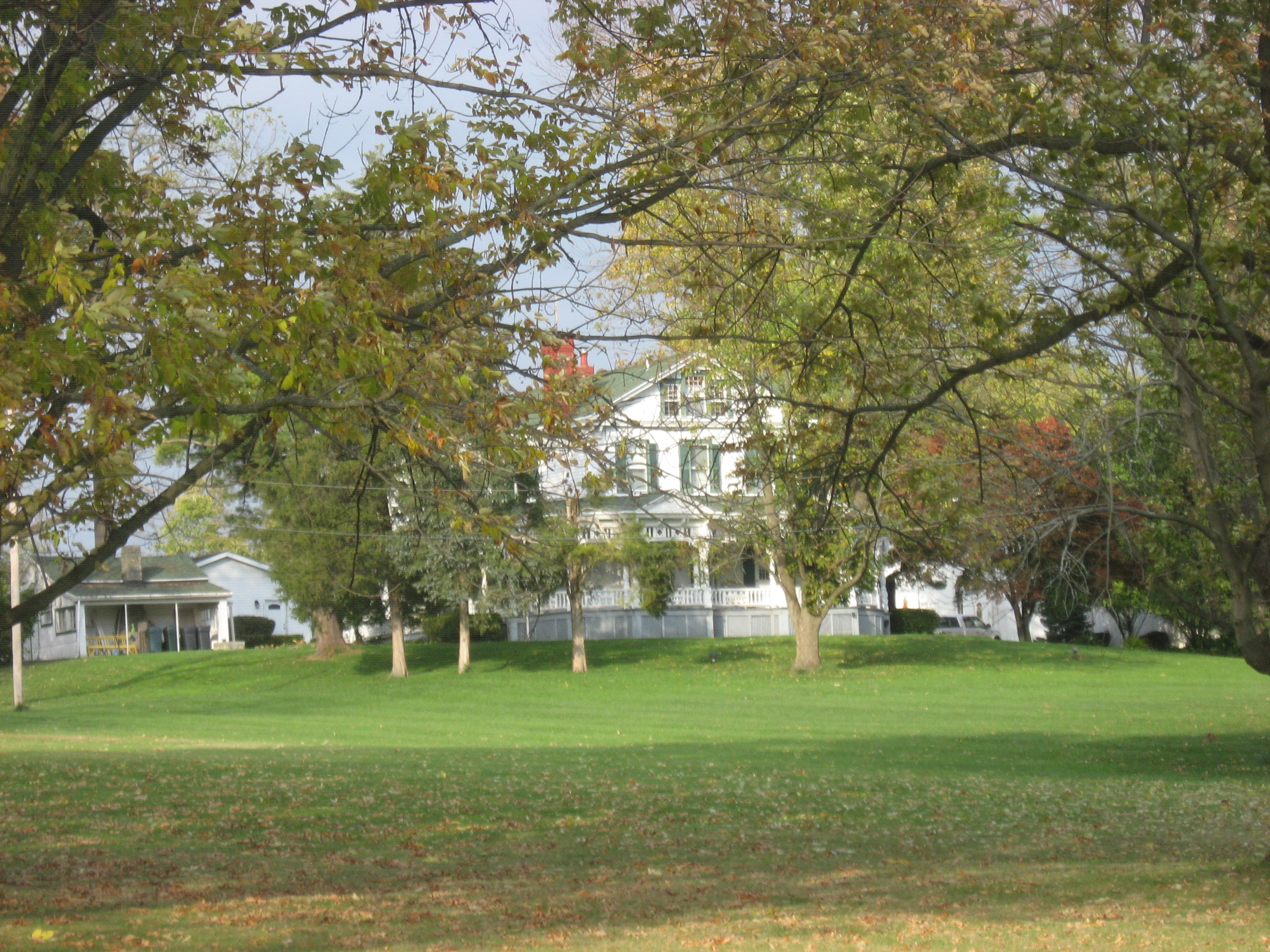 Front of Hughes Manor, located at 5894 Hamilton-Lebanon Road in Monroe, Ohio, United States. Built in 1889, it is listed on the National Register of Historic Places.